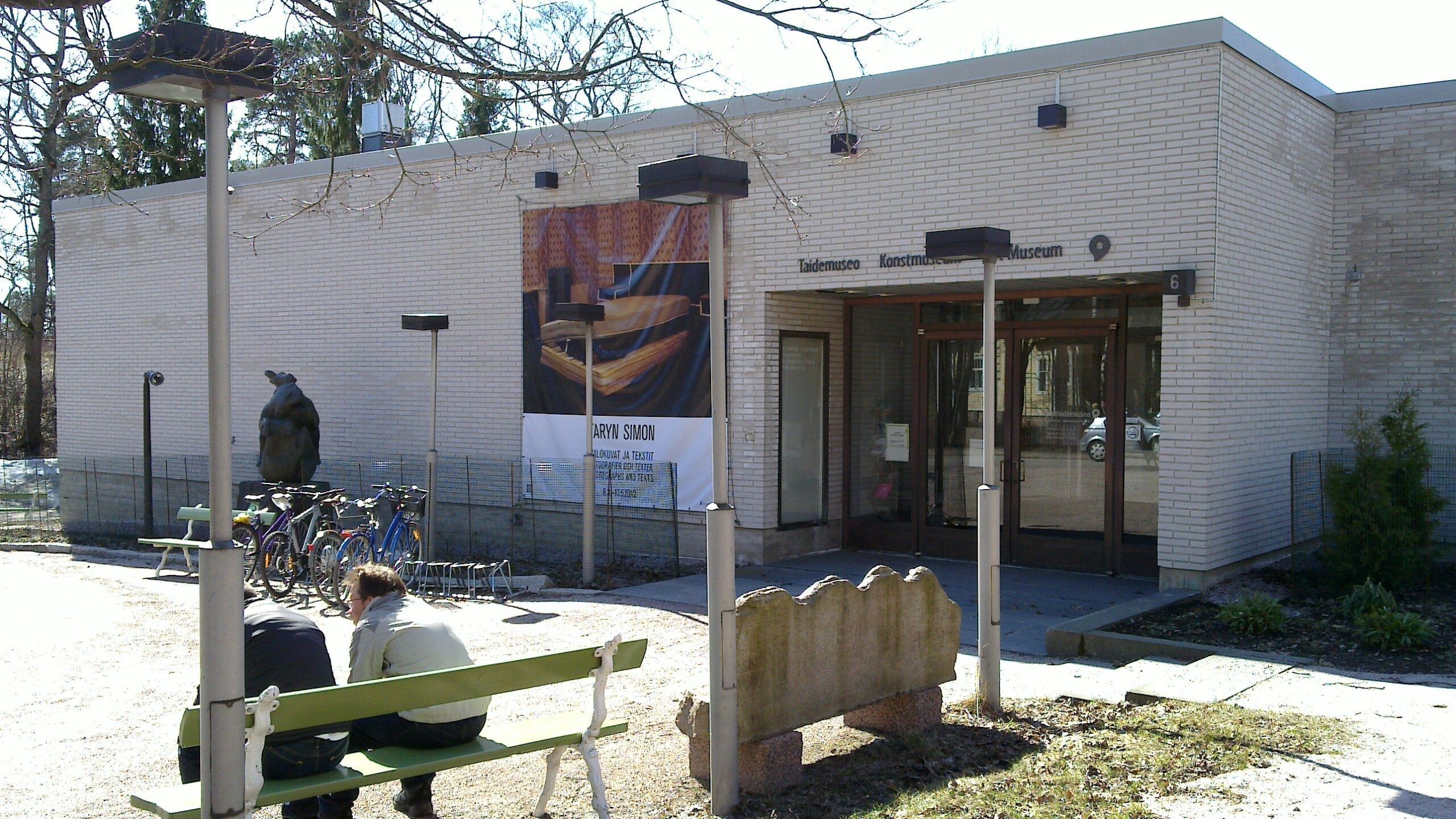 Helsinki Art Museum, architect Tero Aaltonen, 1976. Meilahti park, Helsinki.